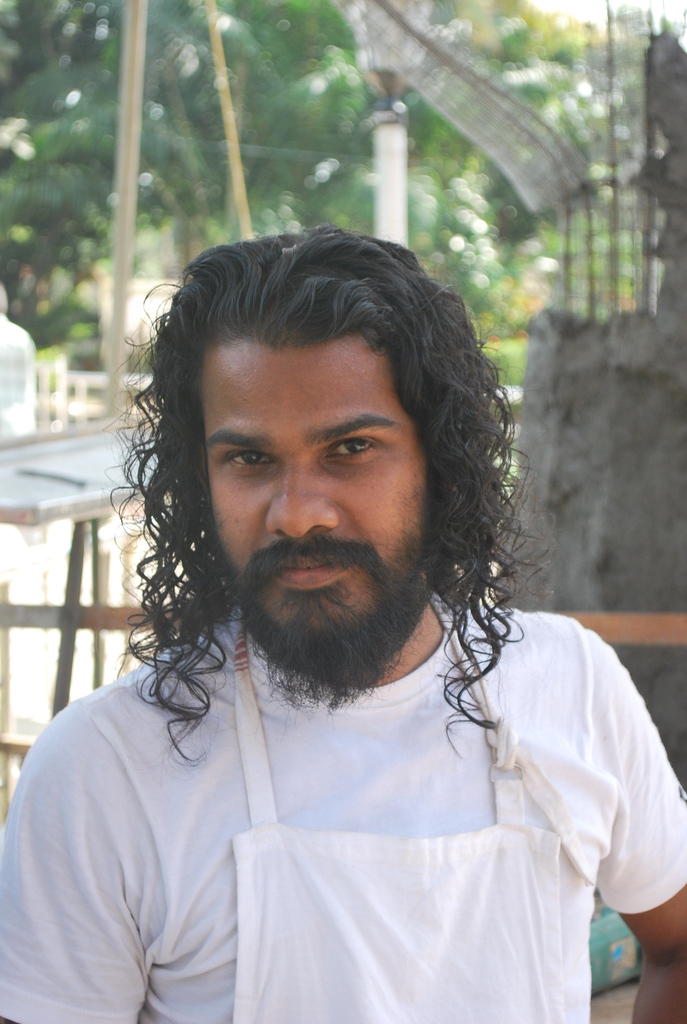 Sculptor V.J. Robert at Kerala Lalitha kala academis sculptor camp at Kayamkulam, Dec 2014